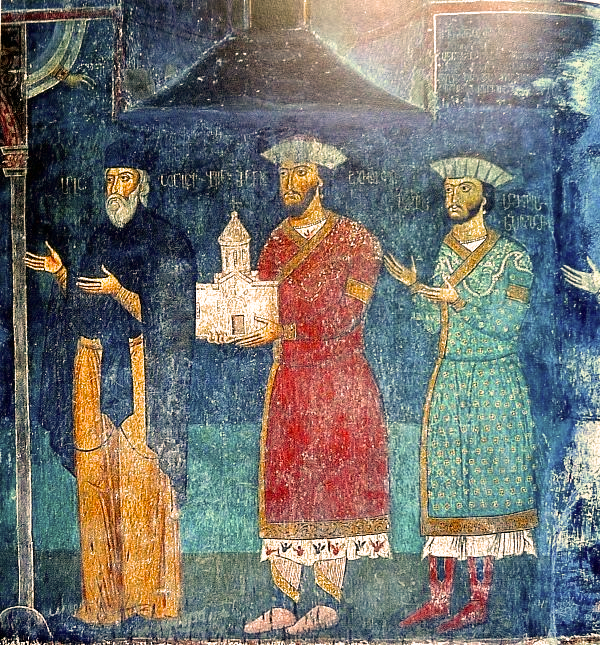 Sapara Church of St. Sabba. A group portrait of Princes Jaqeli (from left to right: Saba, Beka, Sargis, and Qvarqvare?) on the southern wall. 14th century